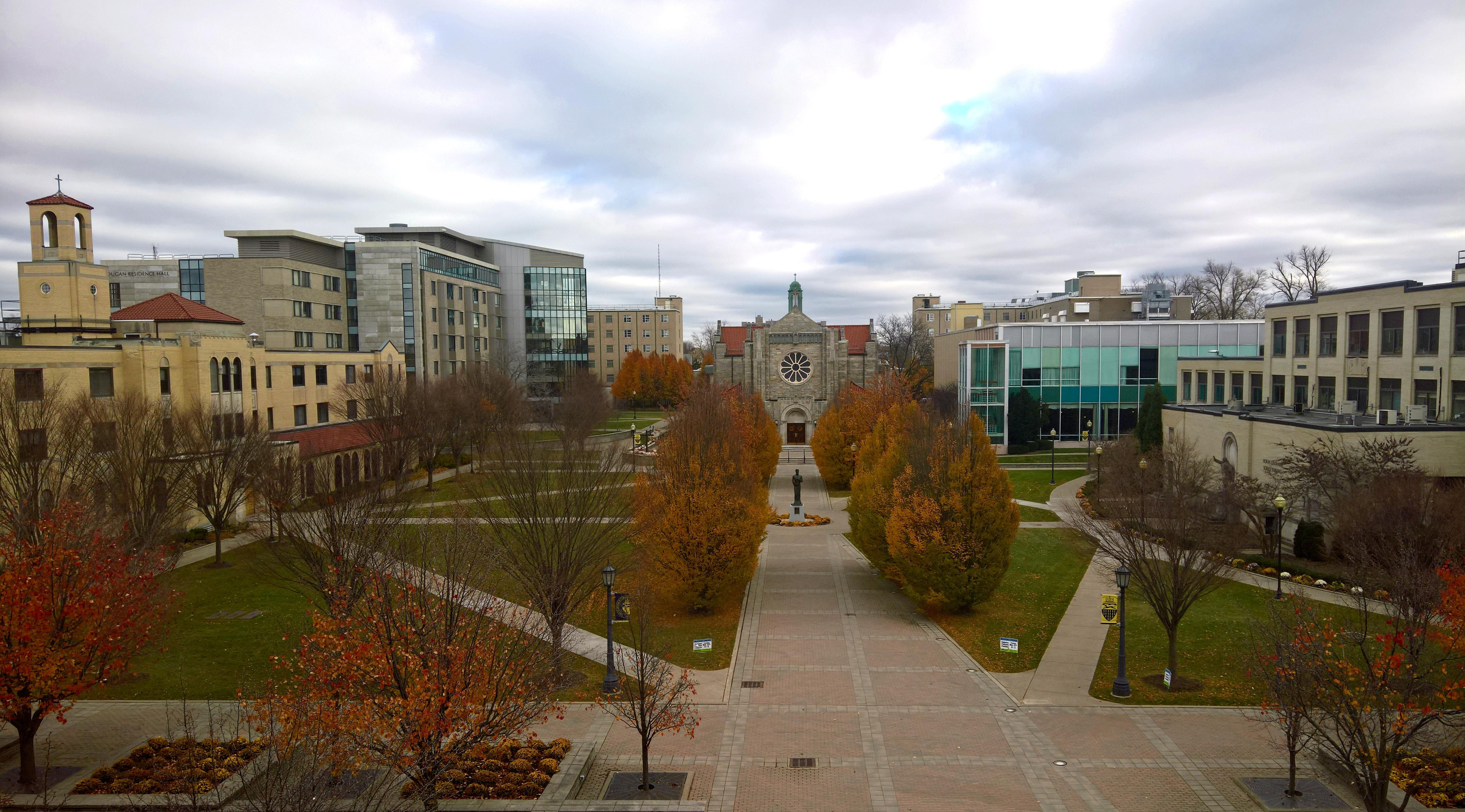 The quad at Canisius College, looking east from Old Main, November 2016.